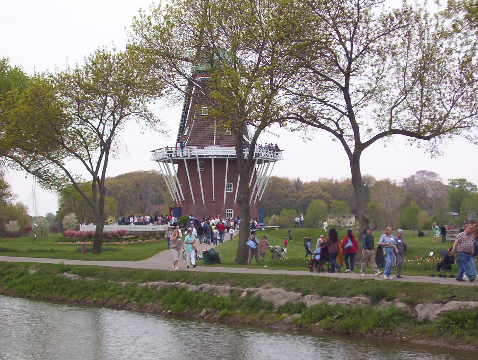 Michigan